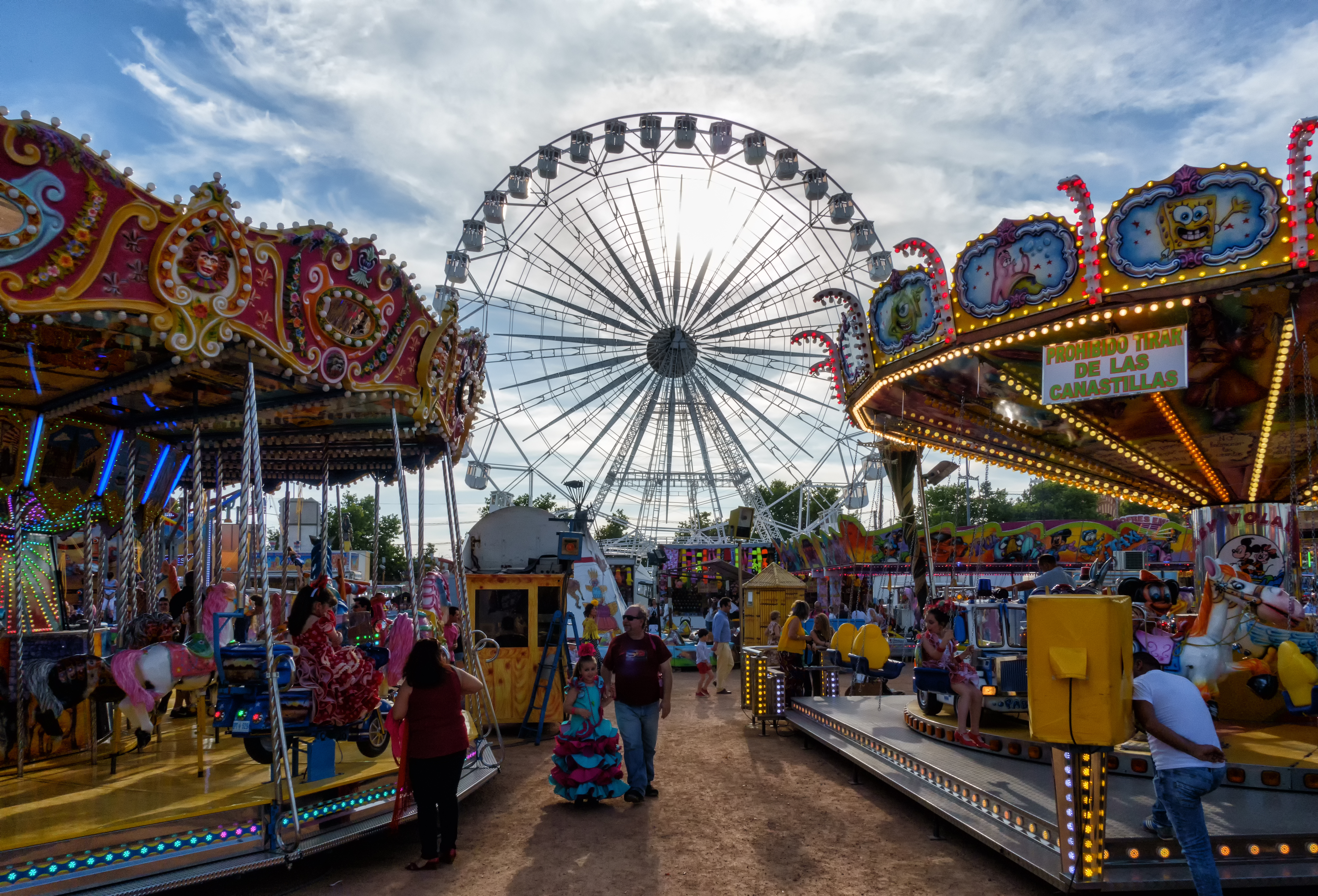 Cordoba Fair 2016. Attractions.